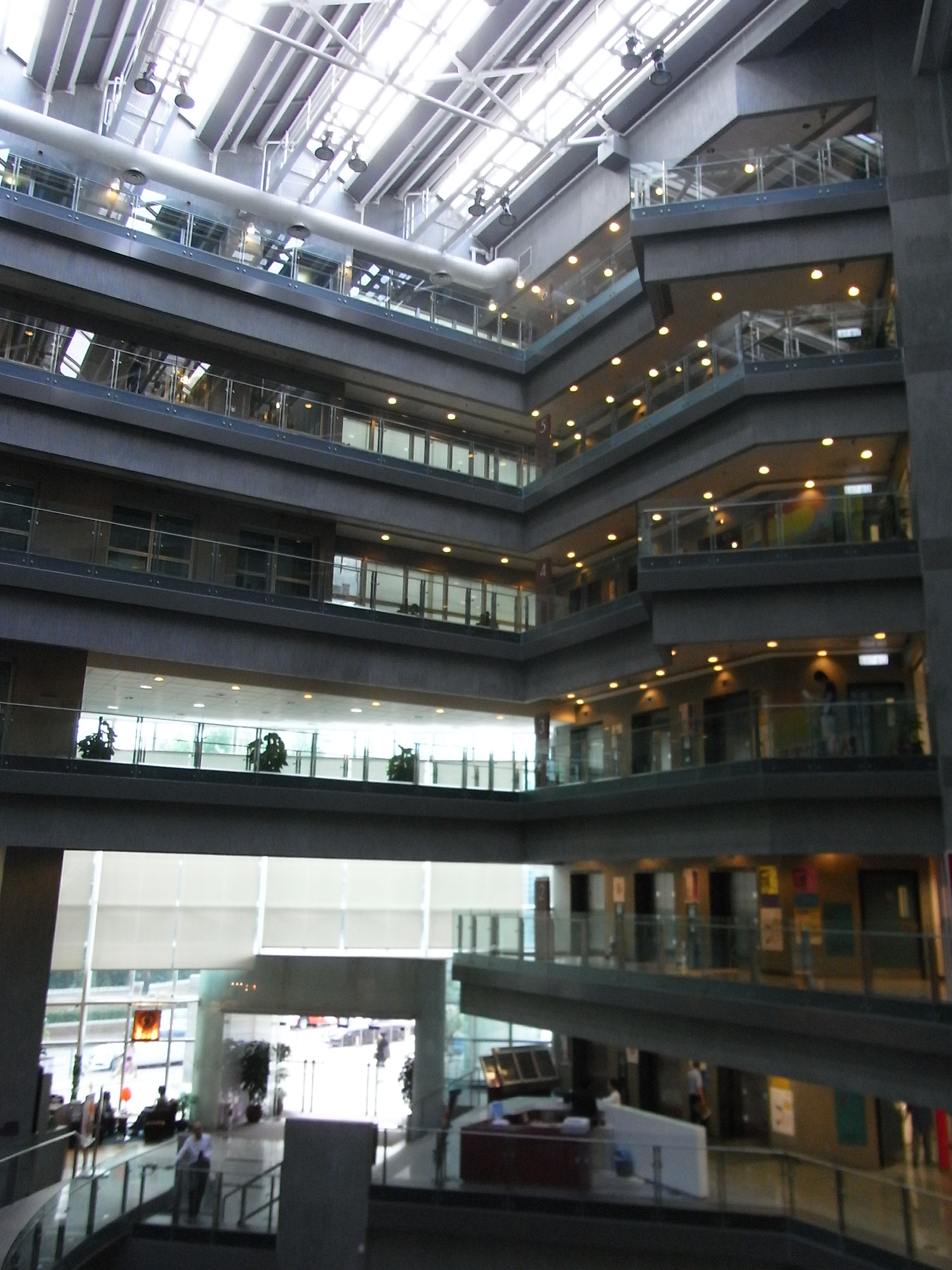 九龍塘 創新中心, InnoCentre, Tat Chee Avenue, Kowloon Tong, Hong Kong